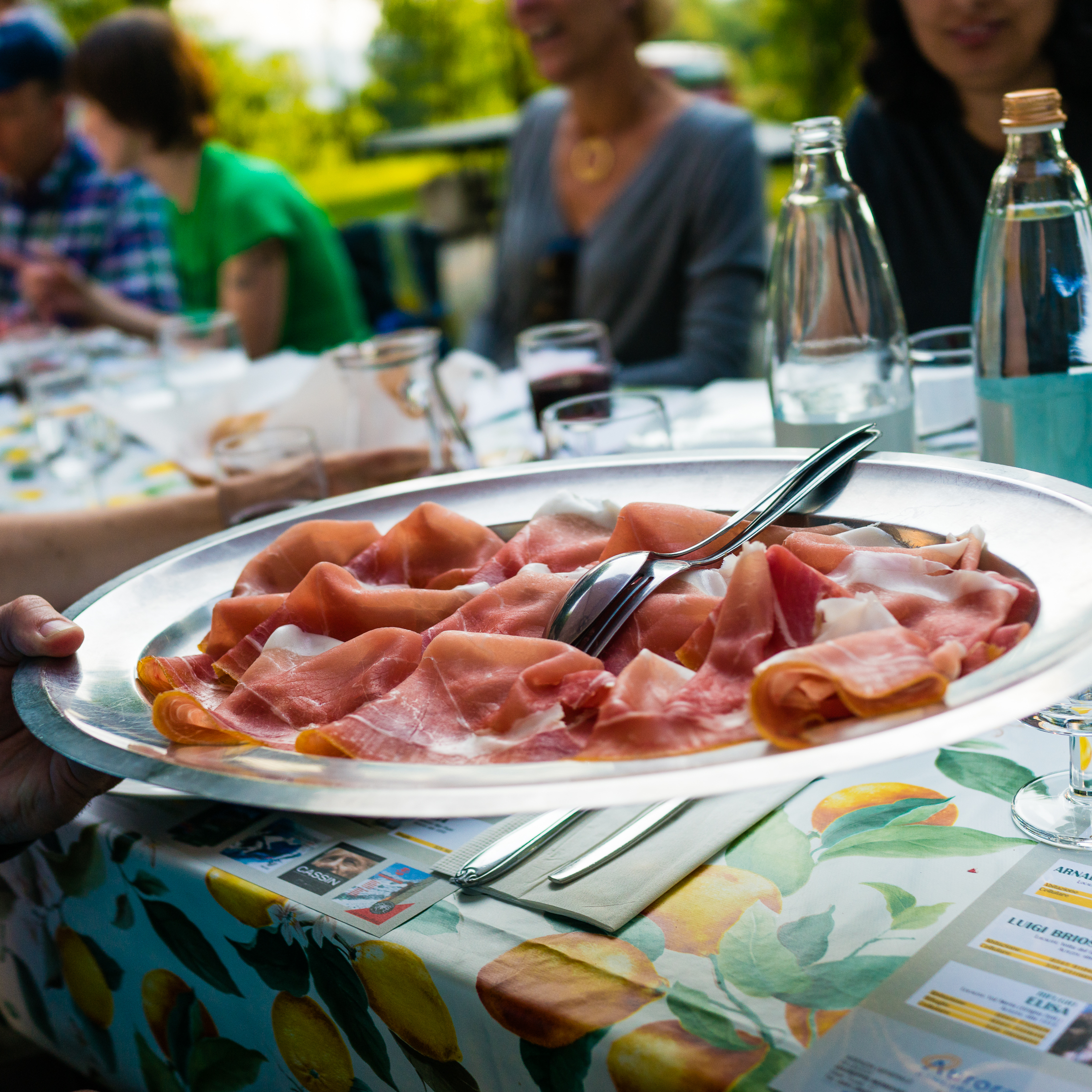 Prosciutto at a dinner in Esino Laria